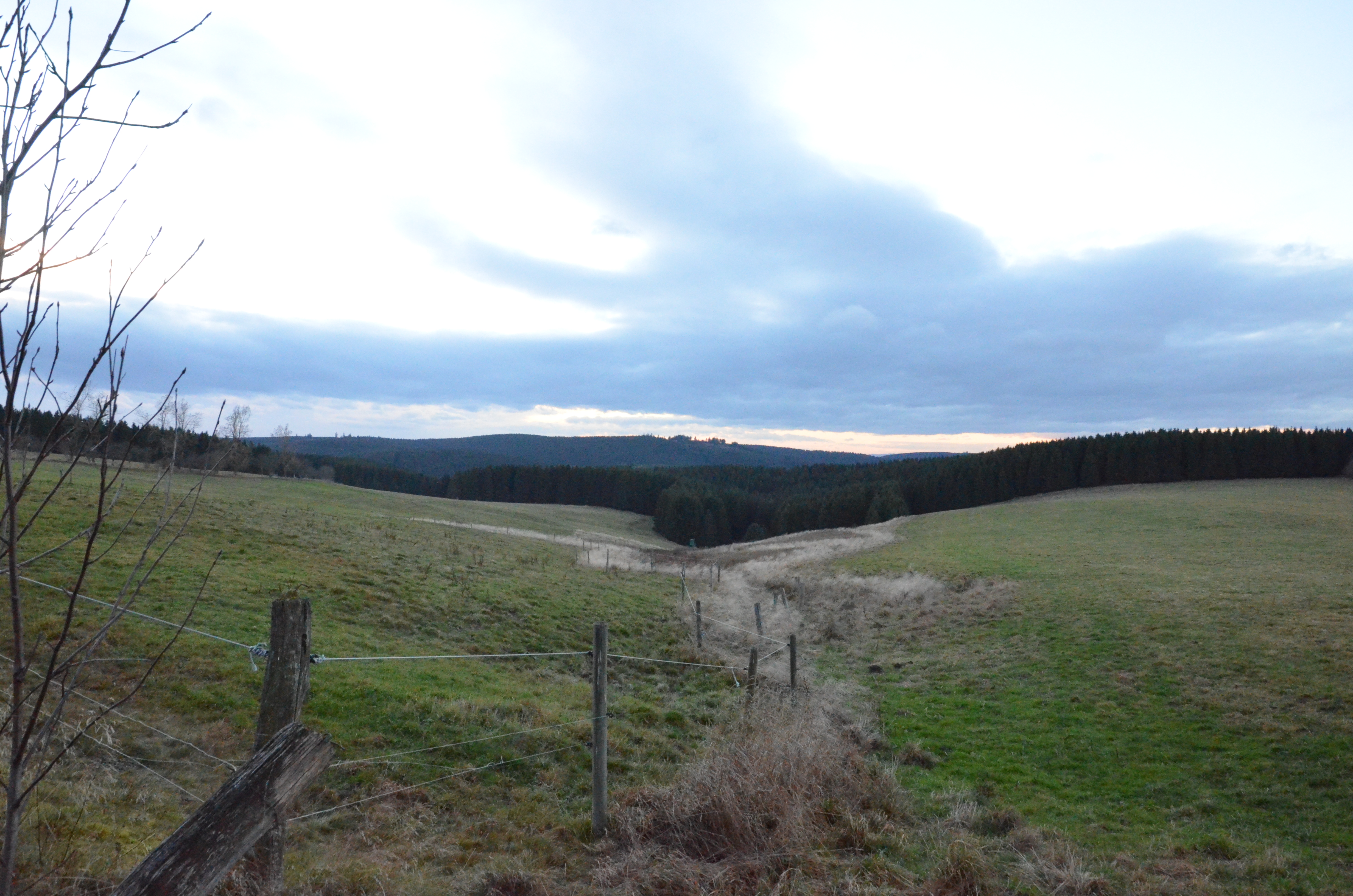 View down the little Clausthal valley near Clausthal (Germany)